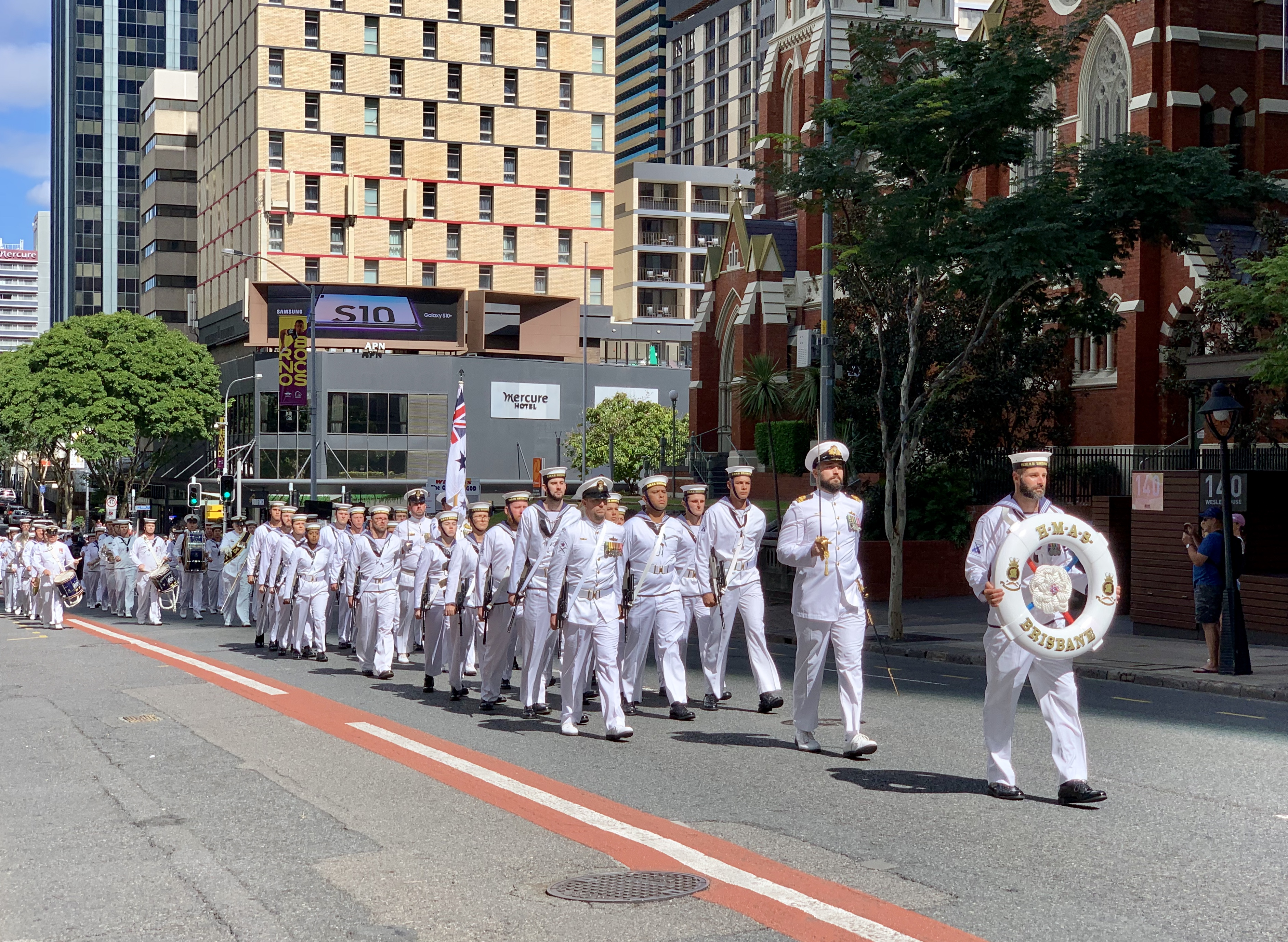 Lifebuoy of HMAS Brisbane, Freedom of Entry Parade - Brisbane, Queensland in April 2019